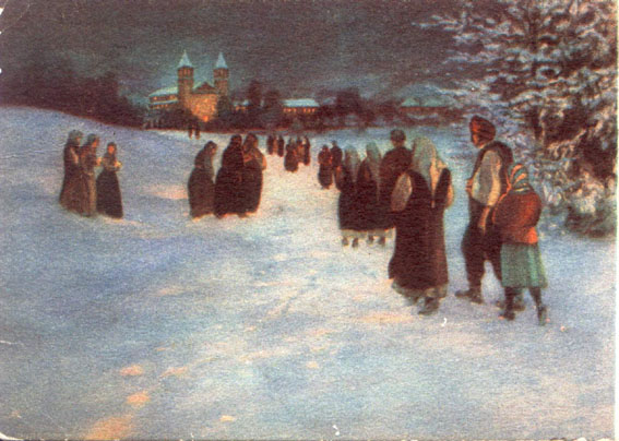 Croats of Bosnia and Herzegovina go to the Church on Christmas Eve